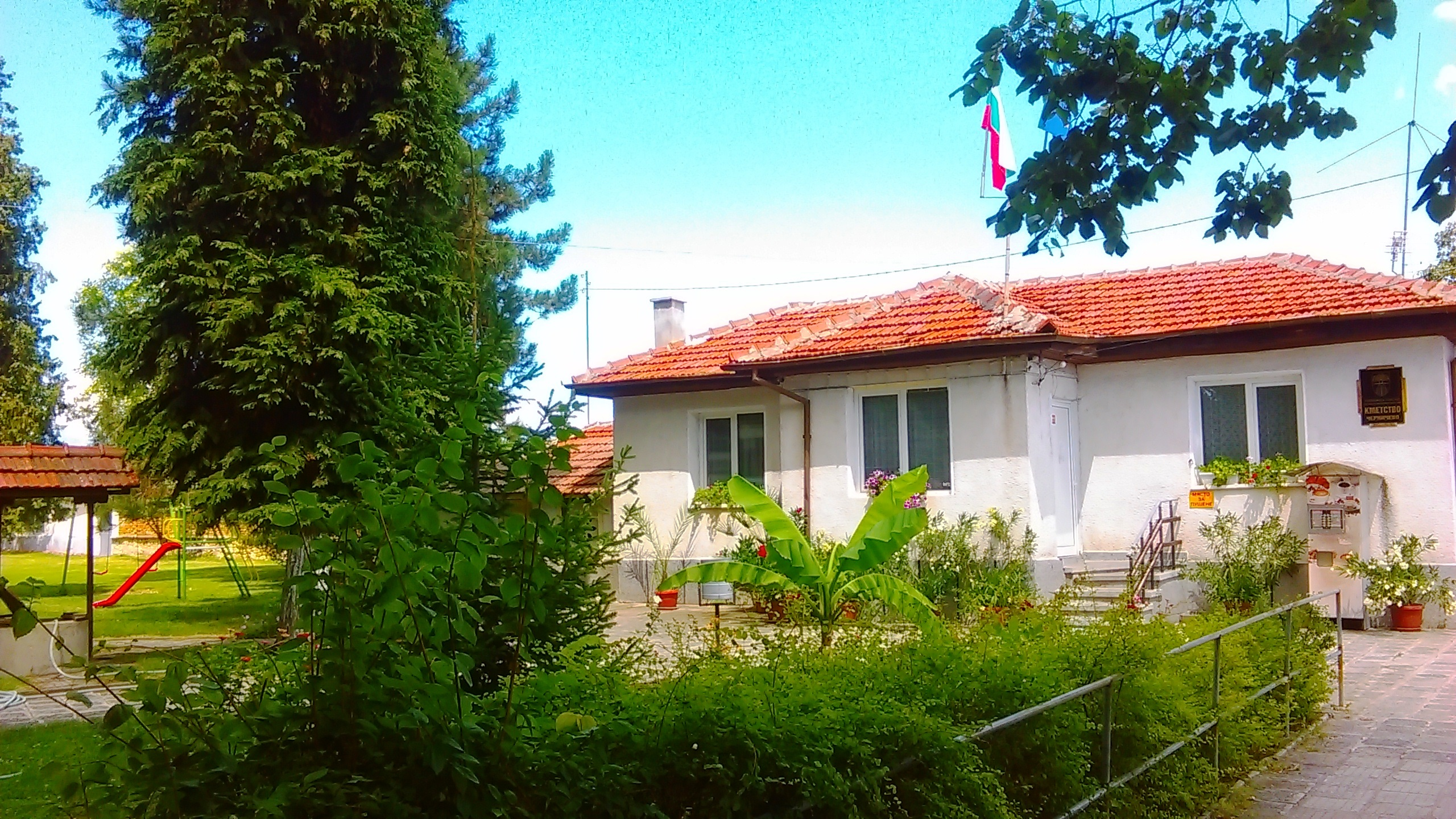 Mayor's place in Chernichevo, Plovdiv province, Bulgaria